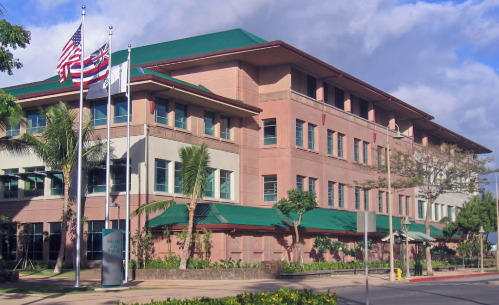 The Research Building at the John A Burns School of Medicine, located in Honolulu Hawaii. Photo by: Scott Dahlem Taken October 13, 2005